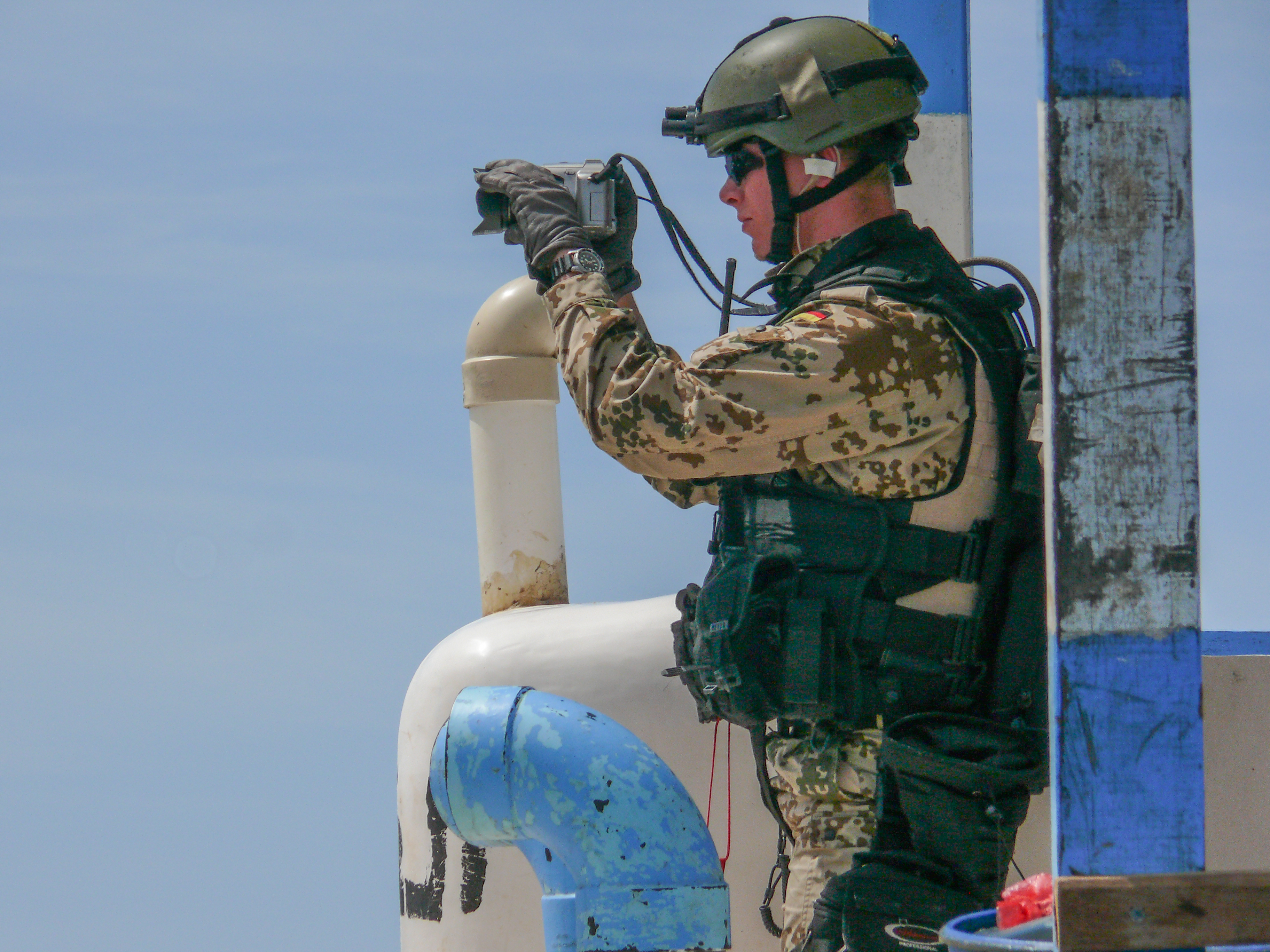 German Navy Boarding Team soldier with the old equipment vest during deployment in Operation ATALANTA